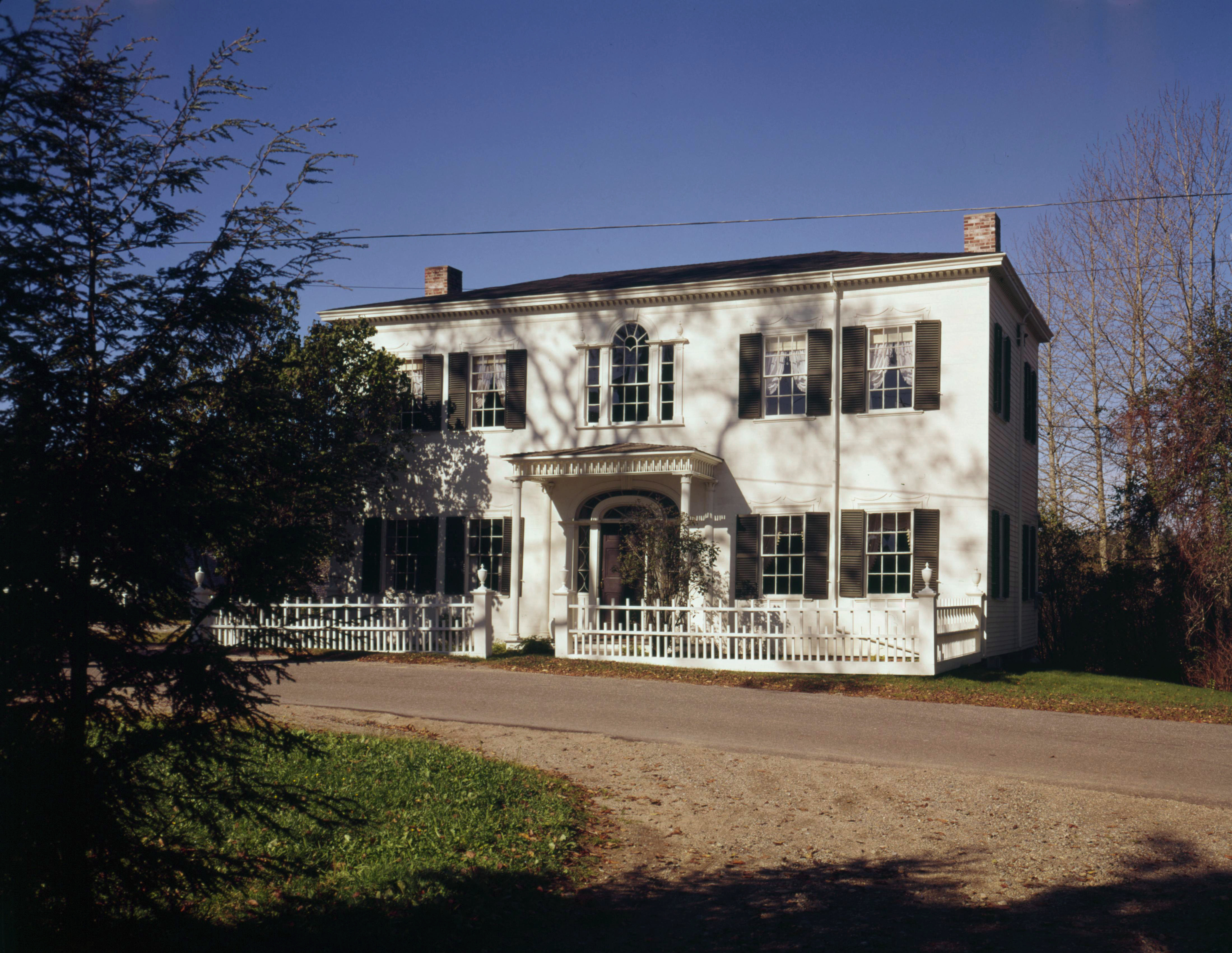 Front of the Ruggles House, located along Main Street in Columbia Falls, a town in Washington County, Maine, United States. Built in 1820, it is listed on the National Register of Historic Places.